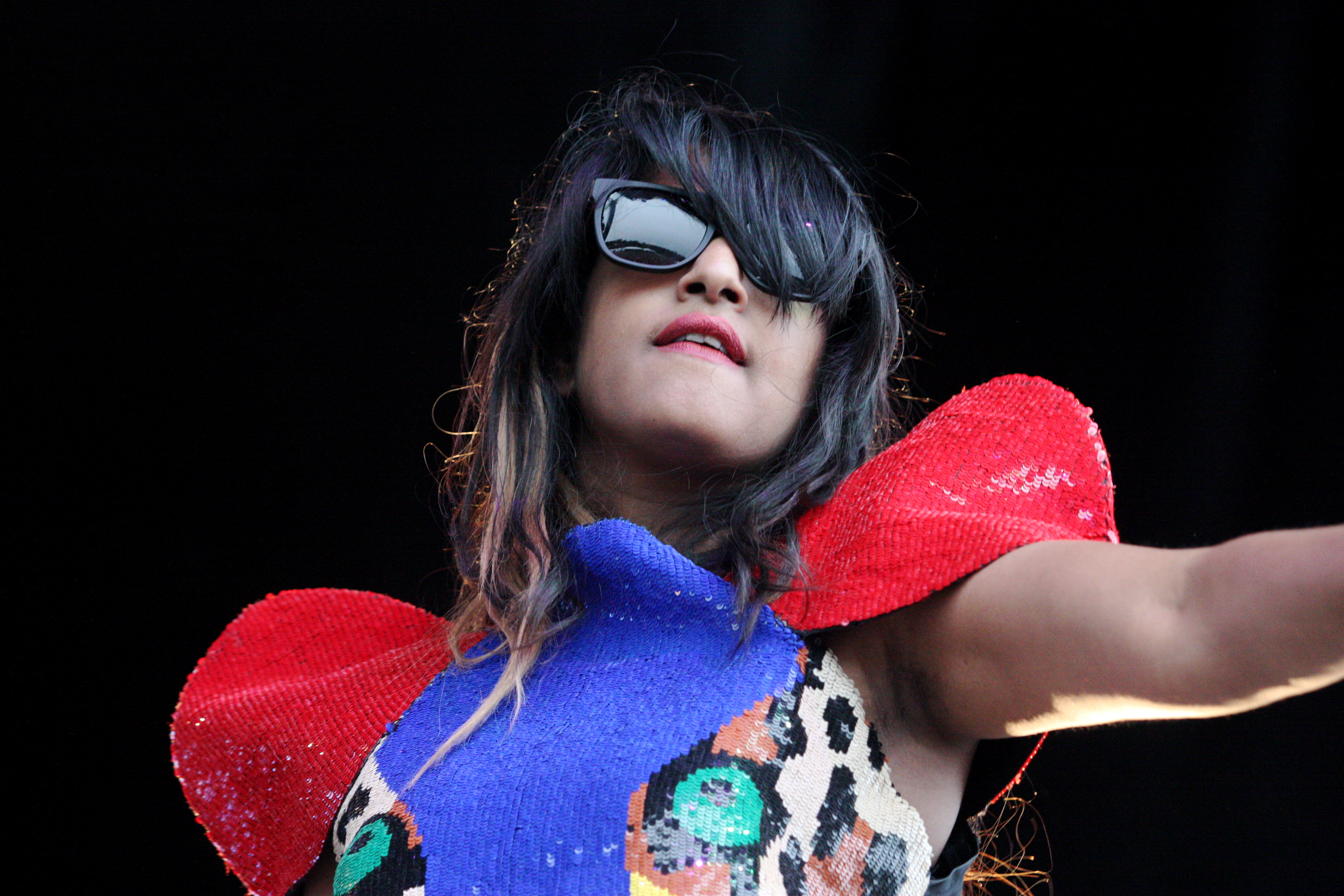 M.I.A. performing at Outside Lands 2009